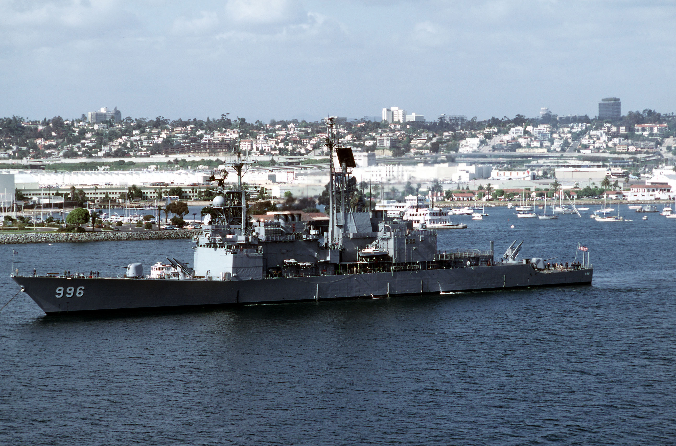 The U.S. Navy guided missile destroyer USS Chandler (DDG-996) anchored off North Island, San Diego, California (USA).